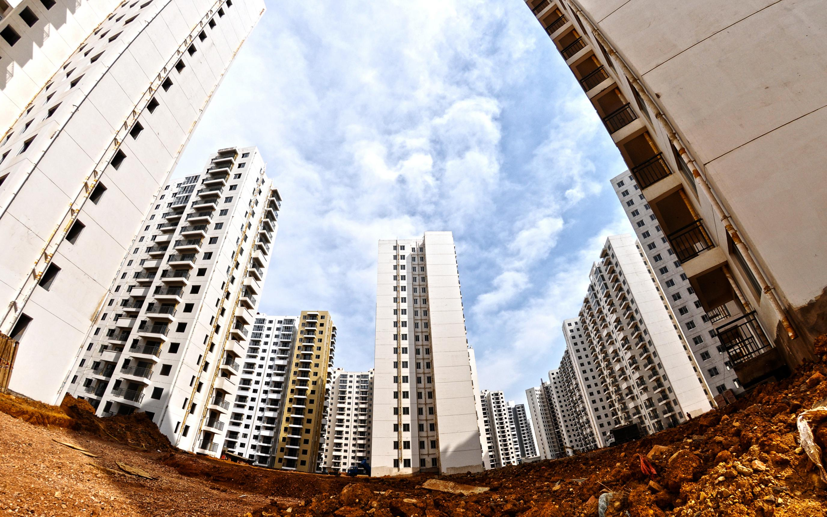 Abandoned residential complexes in the Chenggong district, Kunming, Yunnan. Photo: Matteo Damiani